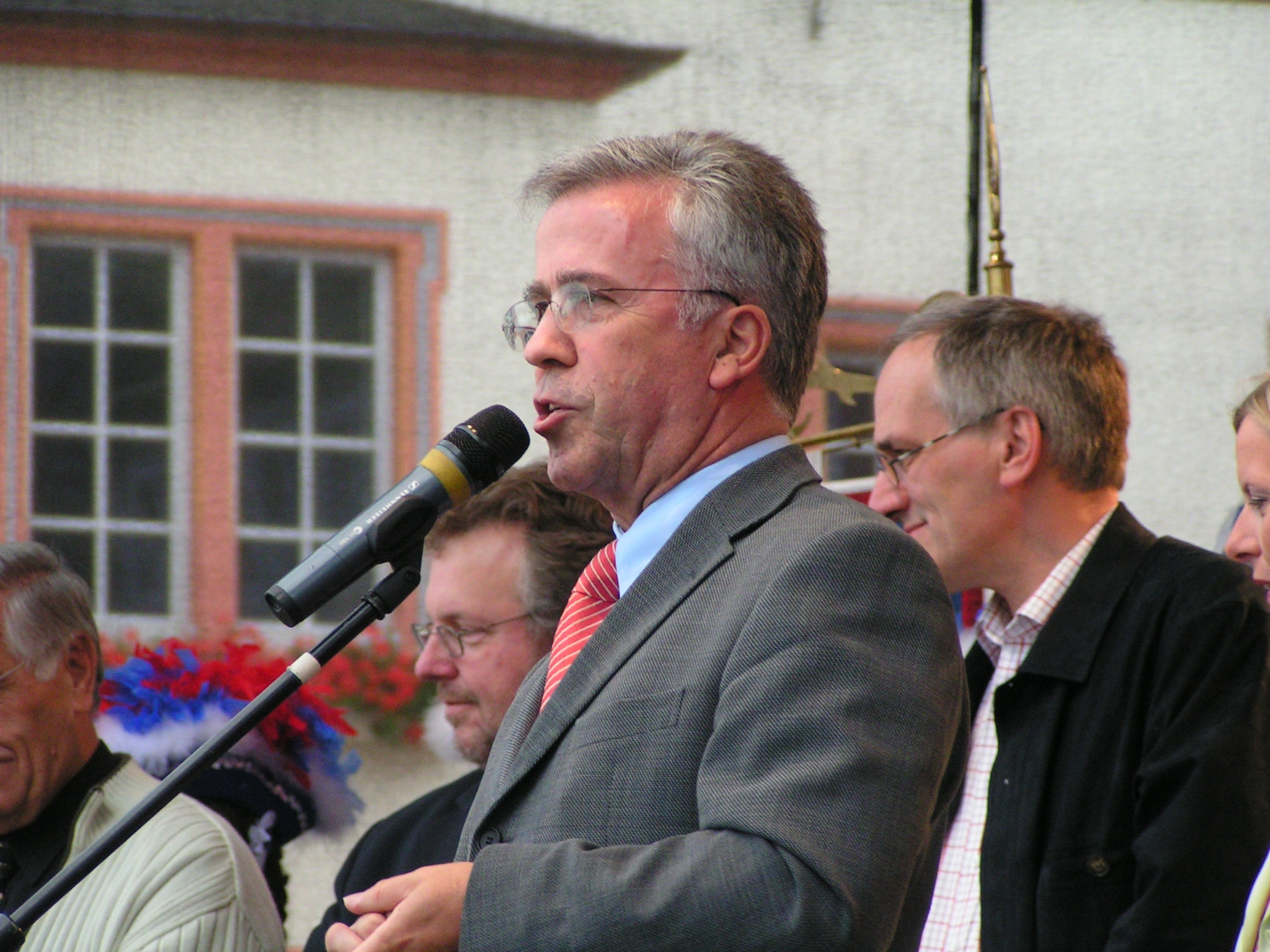 Helmut Schröer, Lord mayor of Trier, Germany